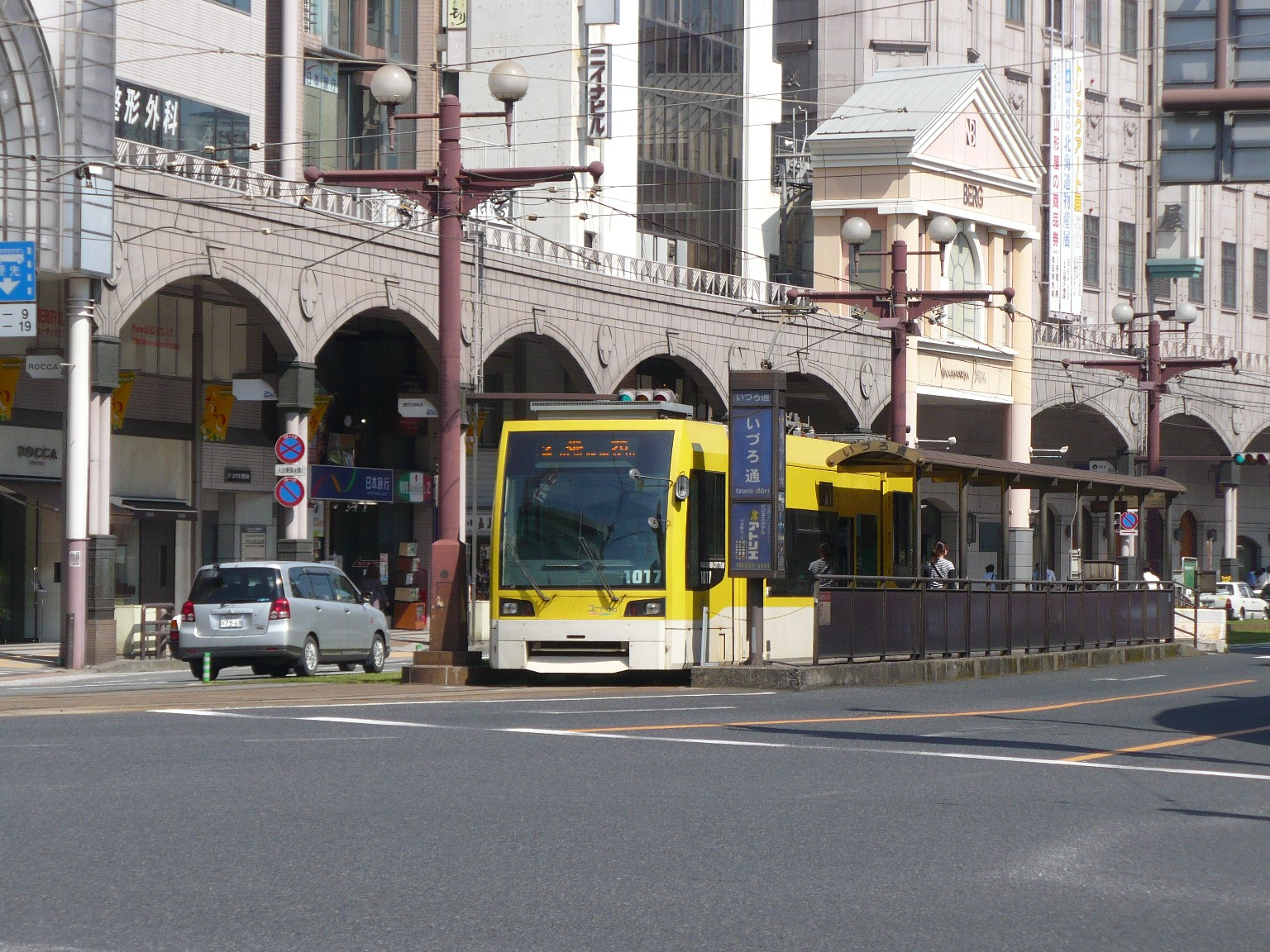 Izurodori tramstop of Kagoshima city transportation bureau, Kagoshima city Kagoshima prefecture Japan.